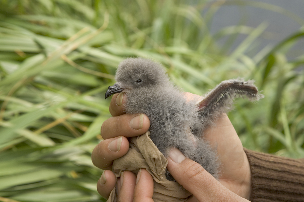 Fork-tailed Petrel chick Oceanodroma furcata Ulak Island